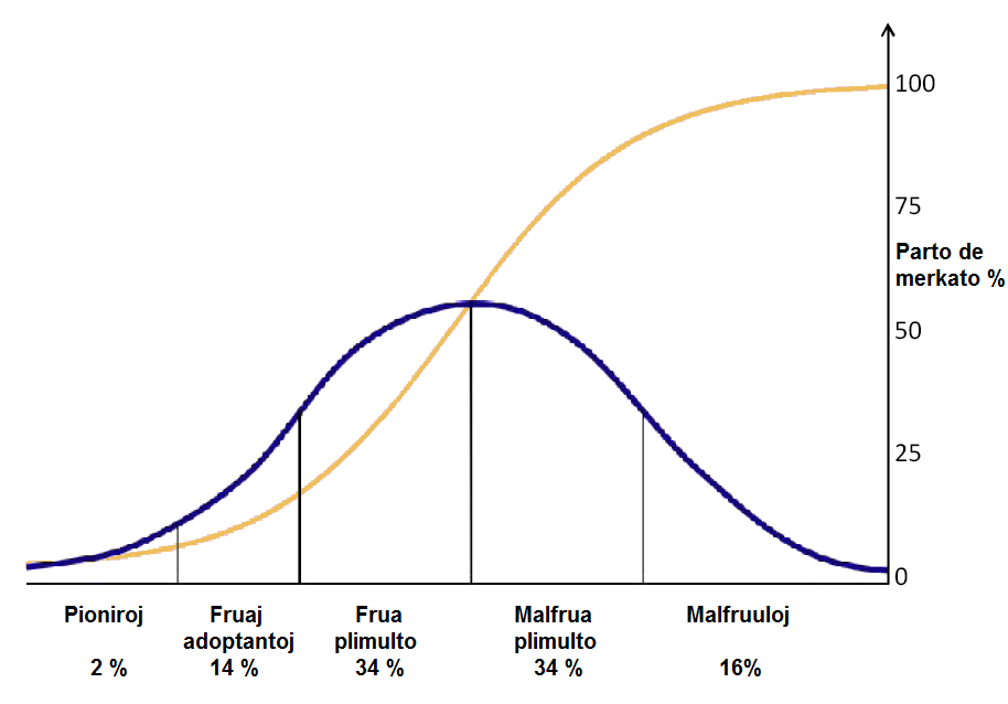 The diffusion of innovations according to Rogers (1962). With successive groups of consumers adopting the new technology (shown in blue), its market share (yellow) will eventually reach the saturation level.